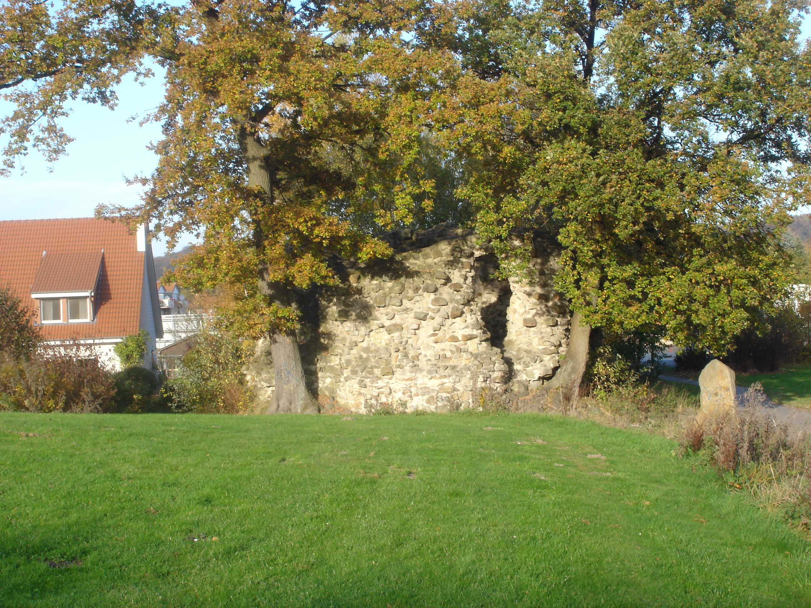 Ruin of the Heidenturm in the city of Ibbenbüren, Kreis Steinfurt, North Rhine-Westphalia, Germany.